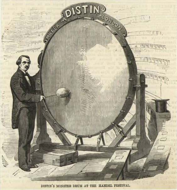 Distin's monster drum at the Handel festival.